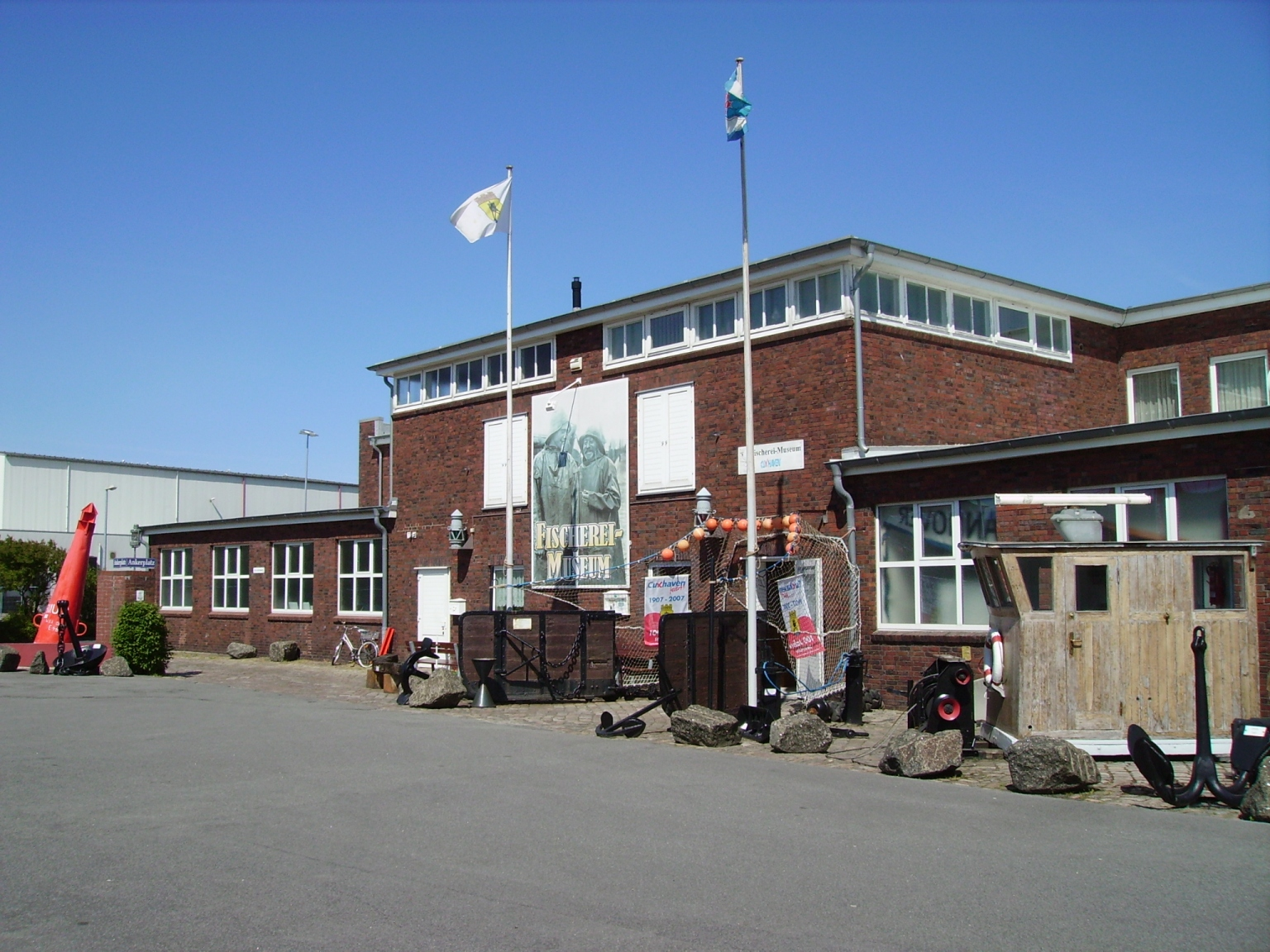 Fishery museum in Cuxhaven, Germany